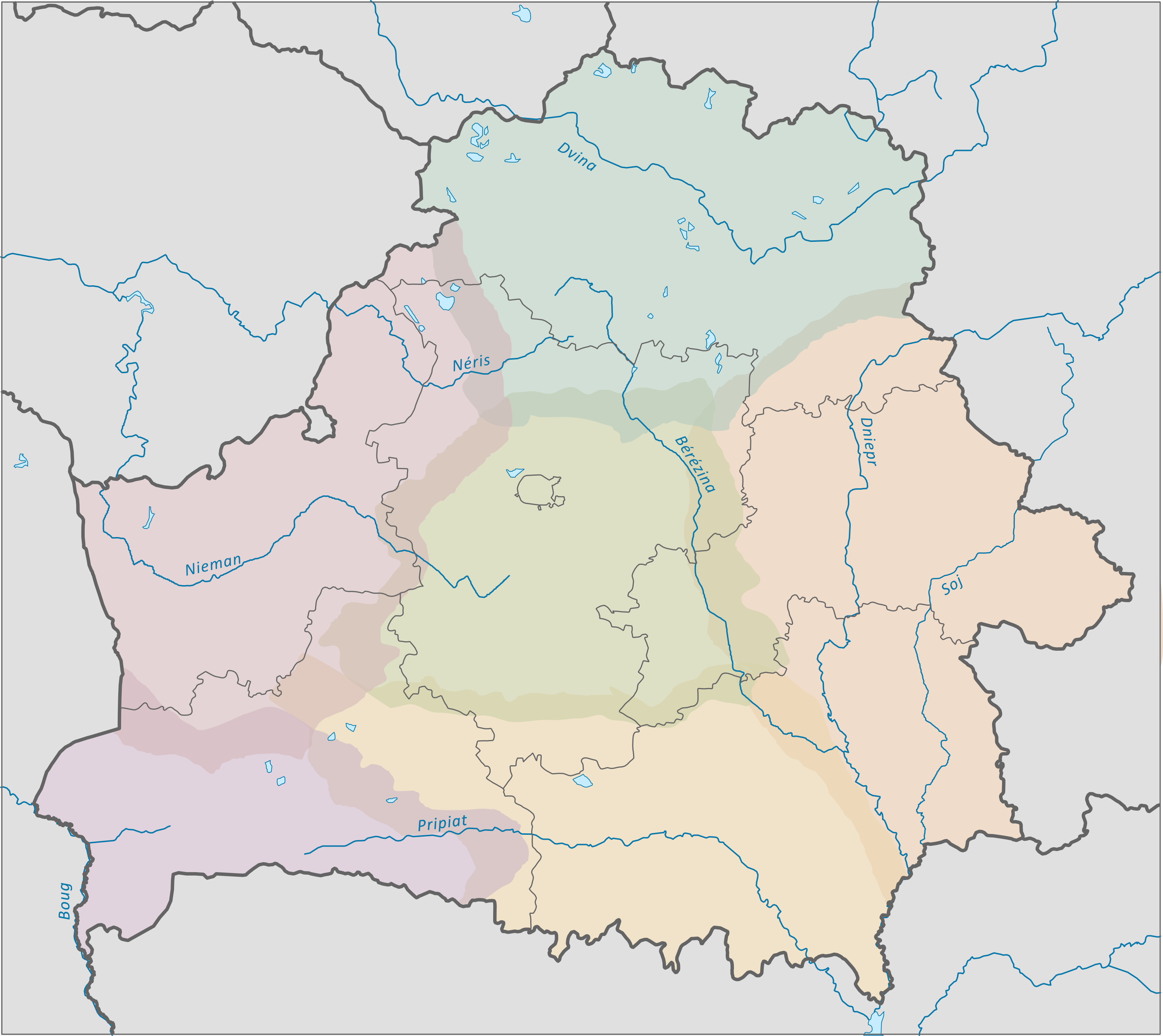 Map of Belarus rivers